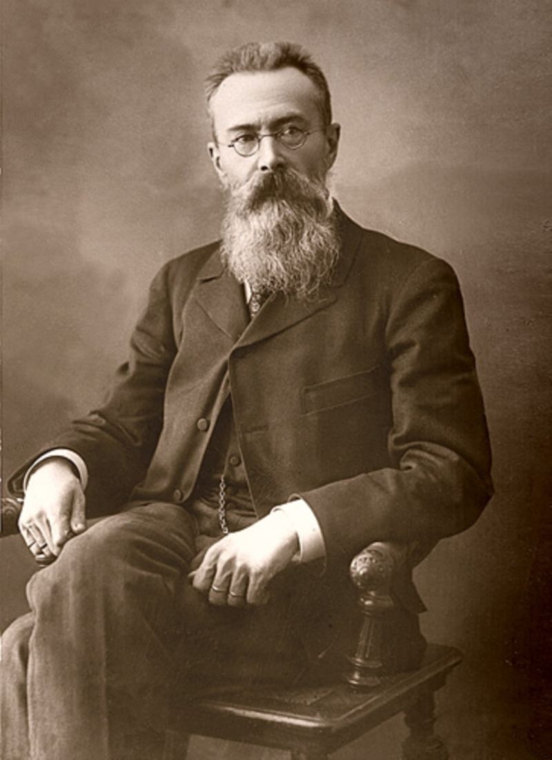 Nikolay A. Rimsky-Korsakov, composer. 1897